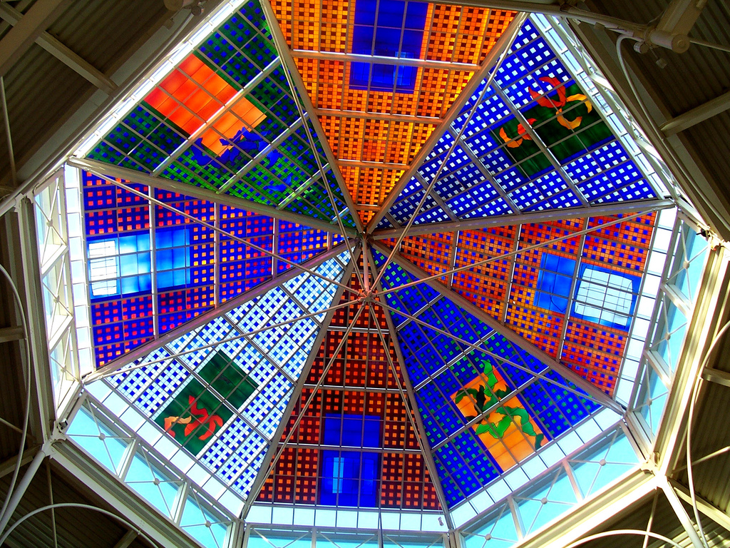 Oldham's "The Spindles" shopping centre features a stained glass window by Brian Clarke, designed celebrate the music of Sir William Walton.